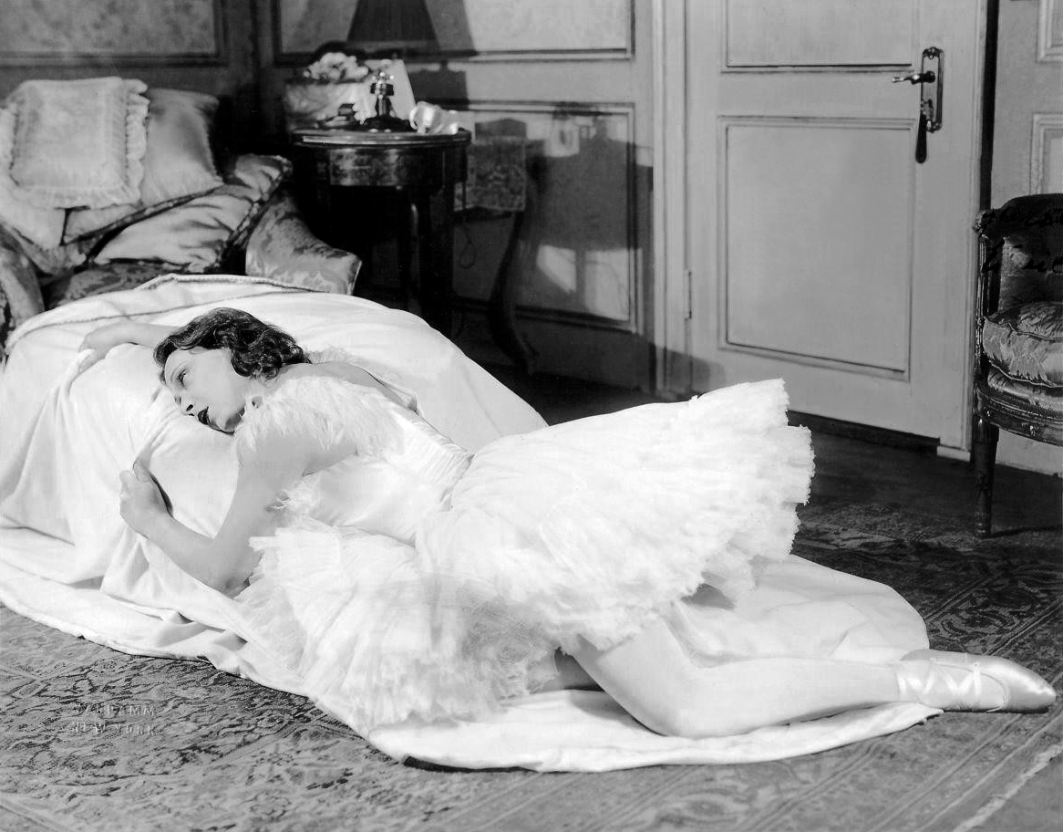 Promotional photograph of Eugenie Leontovich in the original Broadway stage production of Grand Hotel (1930) Caption reads as follows: Although she was a star in her native Russia and has been known outside New York these several years for the distinguished performances she has contributed to touring productions, "Grand Hotel" has given Mlle. Eugenie Leontovitch [sic] her first opportunity before Manhattan audiences. In that episodic glimpse of metropolitan life by Vicki Baum, her portrait of a dancer takes its place with the fine interpretations of the season